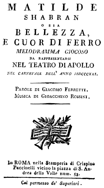 Gioachino Rossini - Matilde di Shabran - titlepage of the libretto - Rome 1821